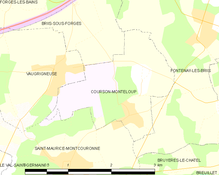 Map of French municipality Courson-Monteloup